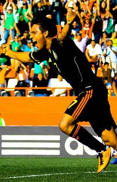 Mexican player Javier Cortes